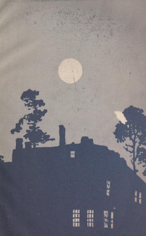 Jacket Design for Collections and Reflections by Yoshio Markino